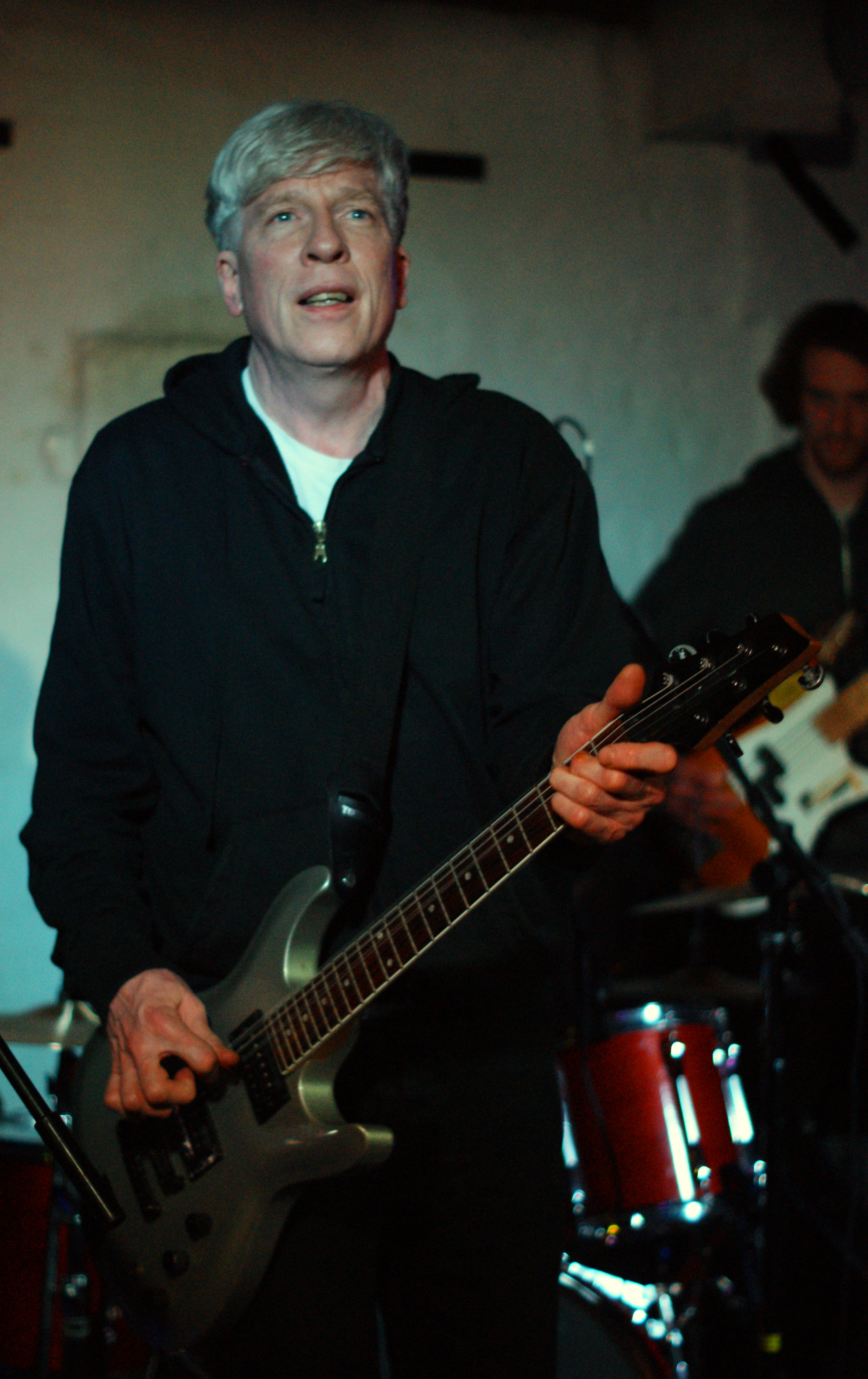 Rhys Chatham at Islington Mill, Salford